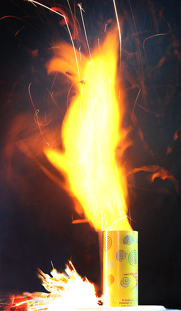 Indoor firework fired at the table at New Years dinner in Denmark